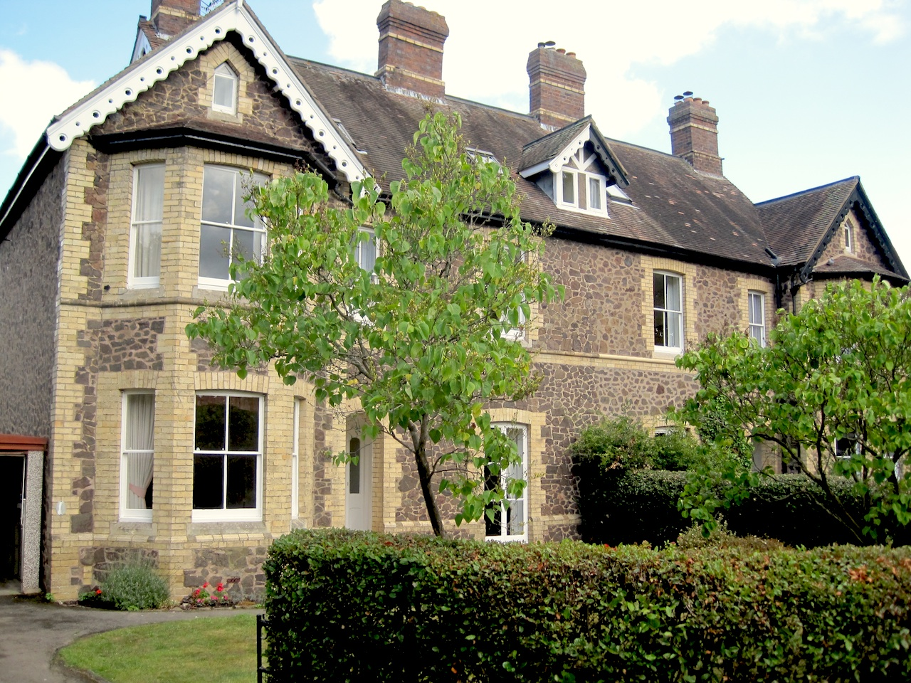 A house occupied by Sir Edward Elgar in Malvern Link, England.